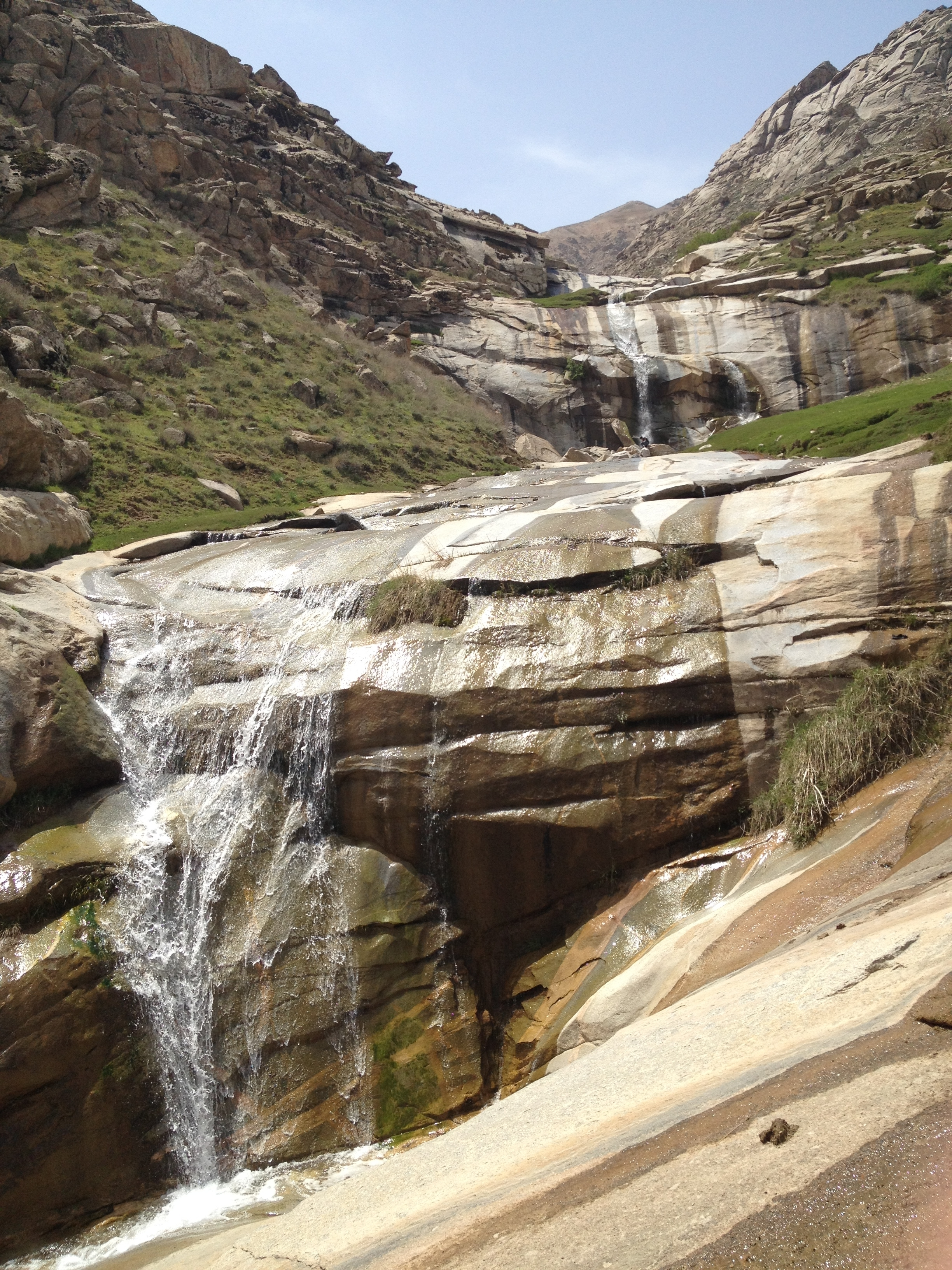 Jiltemasoyning chap irmog`idagi sharshara